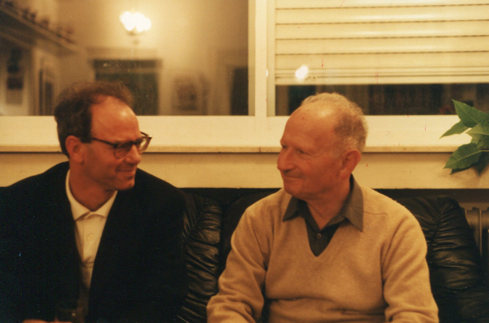 Ahron Bregman and Uzi Narkis